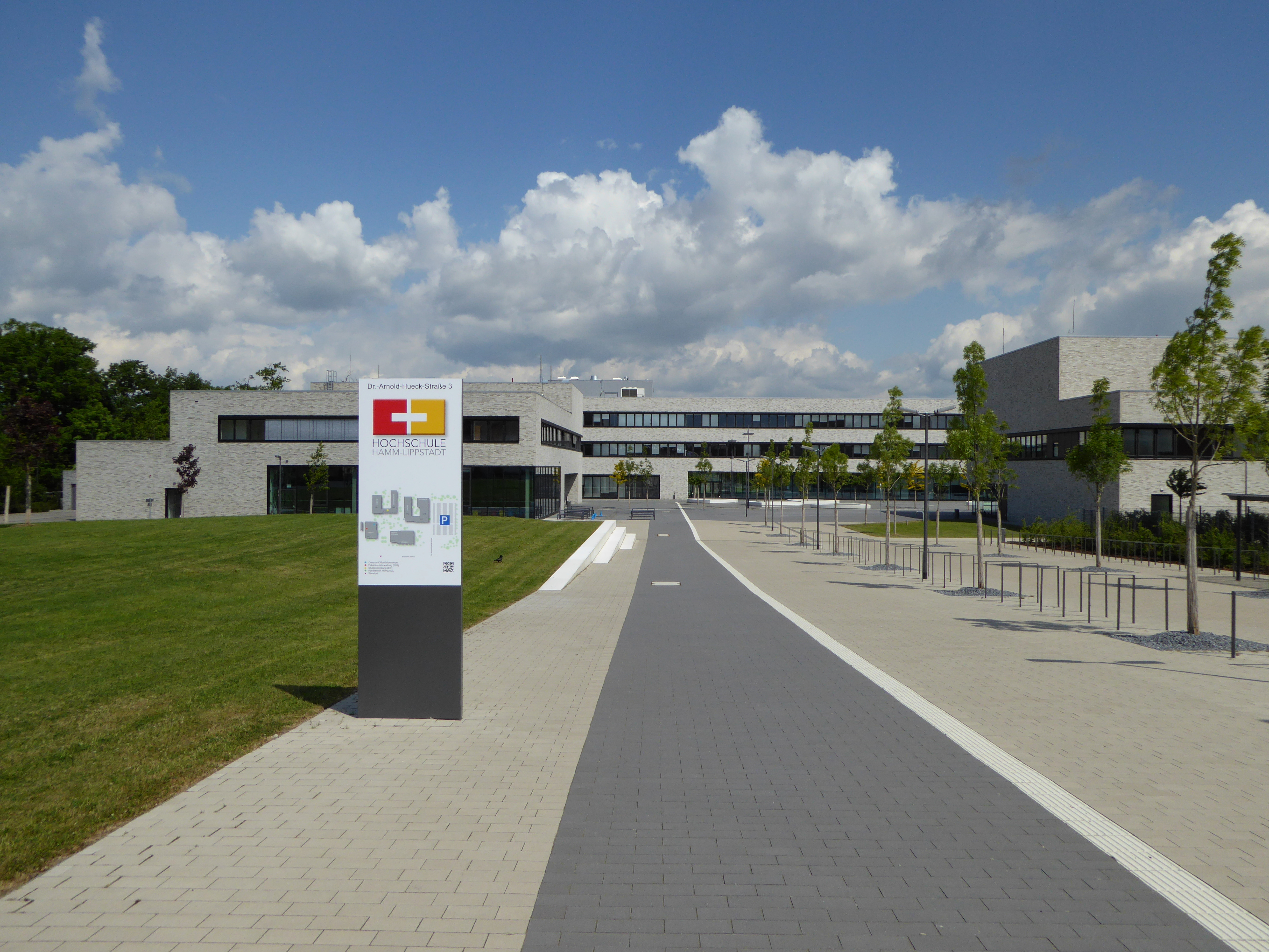 Campus Hochschule-Hamm-Lippstadt in Lippstadt.